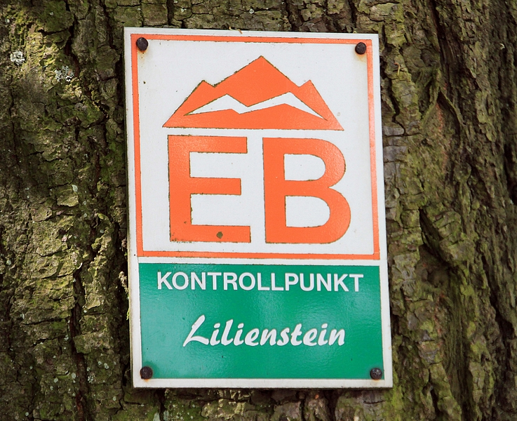 Lilienstein: sign of the international hiking trail from Eisenach to Budapest.